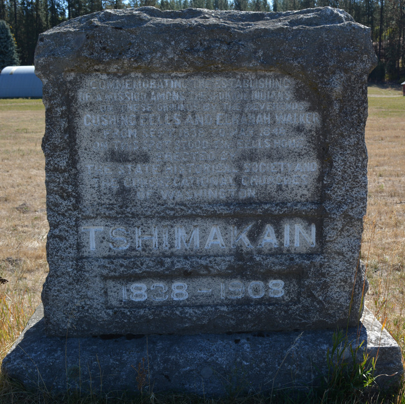 Tshimakain Mission Monument, Ford, Washington